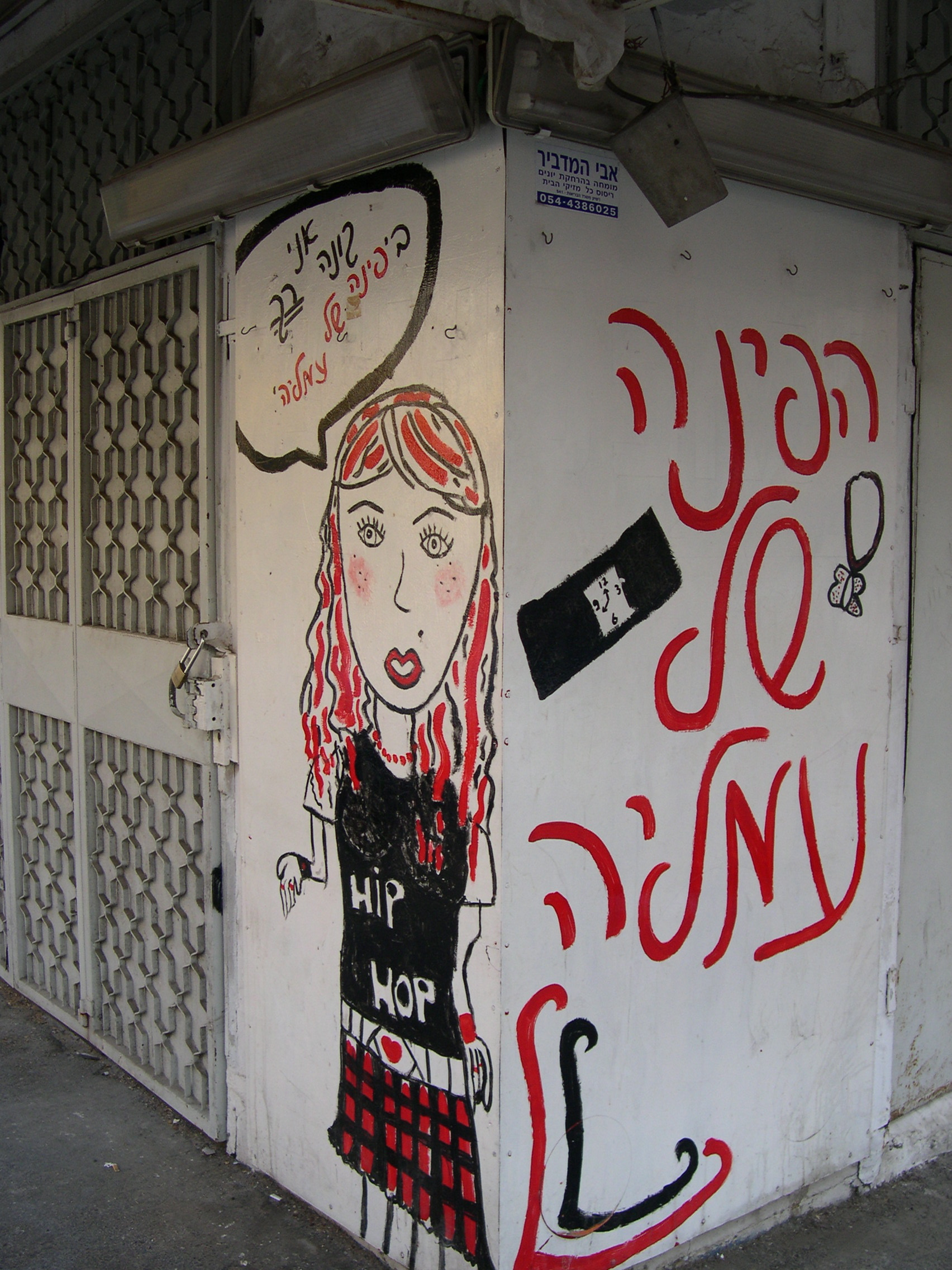 i dunno what it says, i just took the picture. Graffiti : "הפינה של עמליה" "אני בונה רב ביפינה של עמליה"